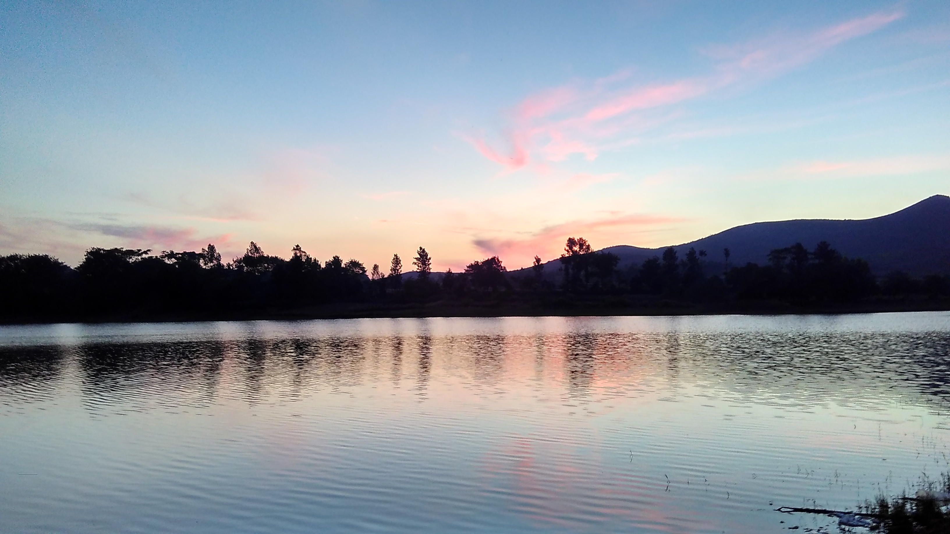 କେଚଲା